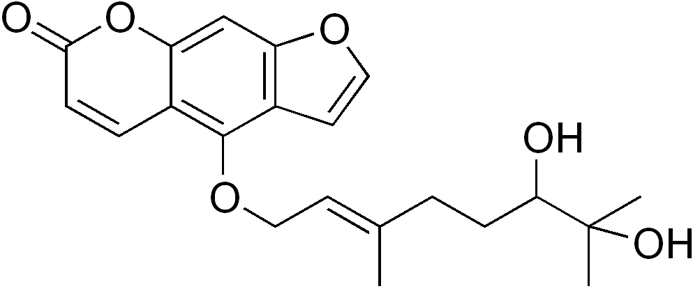 chemical structure of dihydroxybergamottin